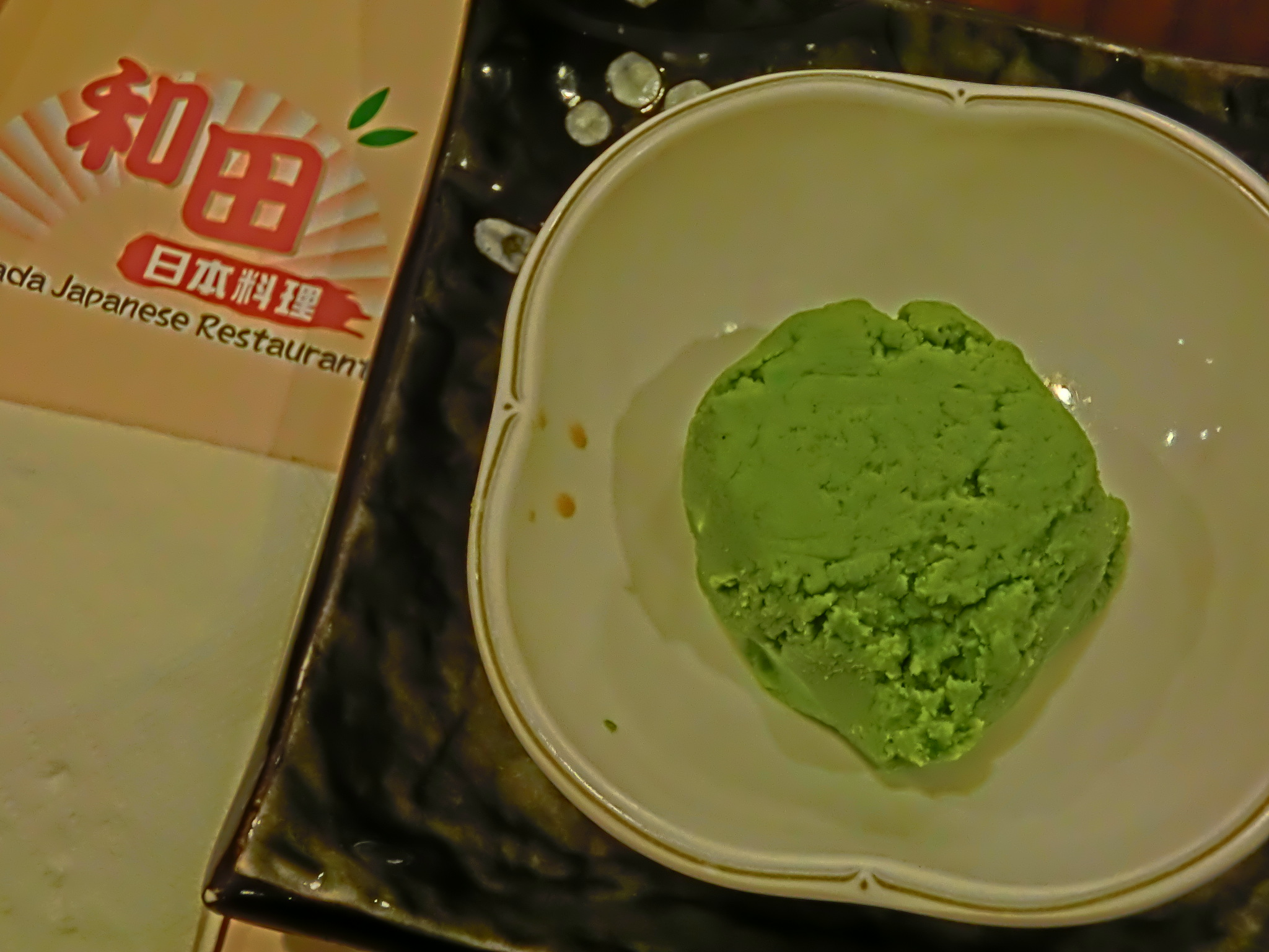 香港 和田日本料理, Wada Japanese Restaurant, The South China Hotel, Java Road, North Point, Hong Kong